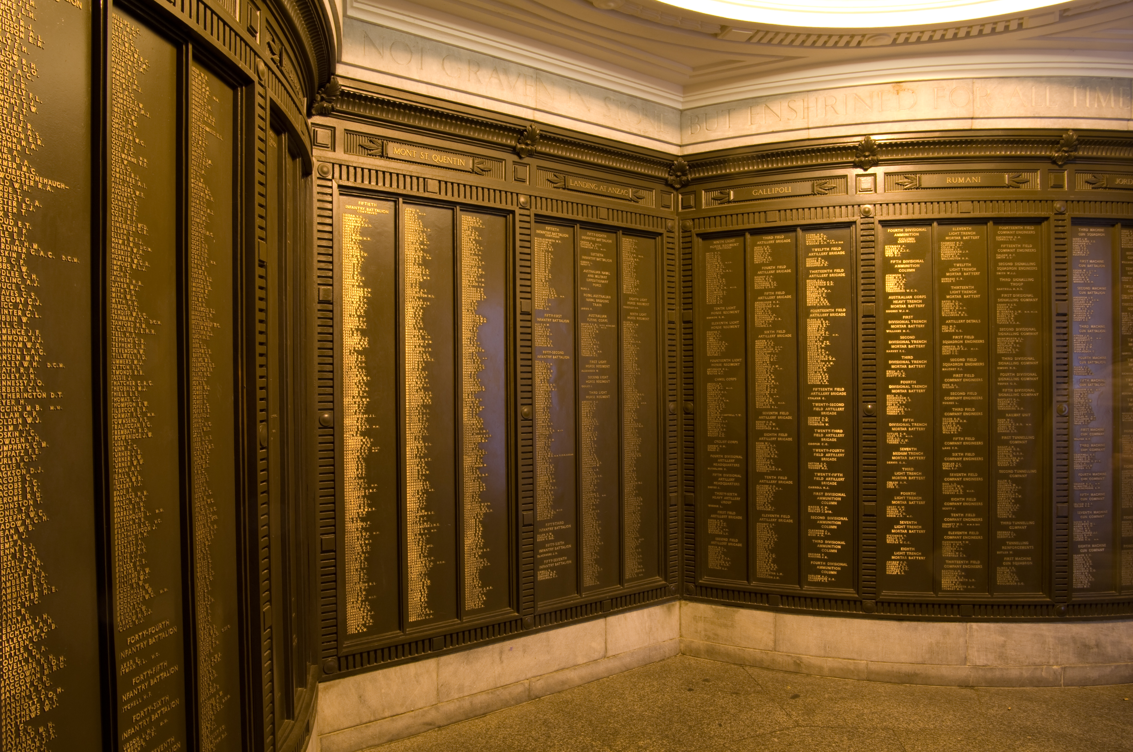 Detail of the bronzes lining the record room in the South Australian National War Memorial.